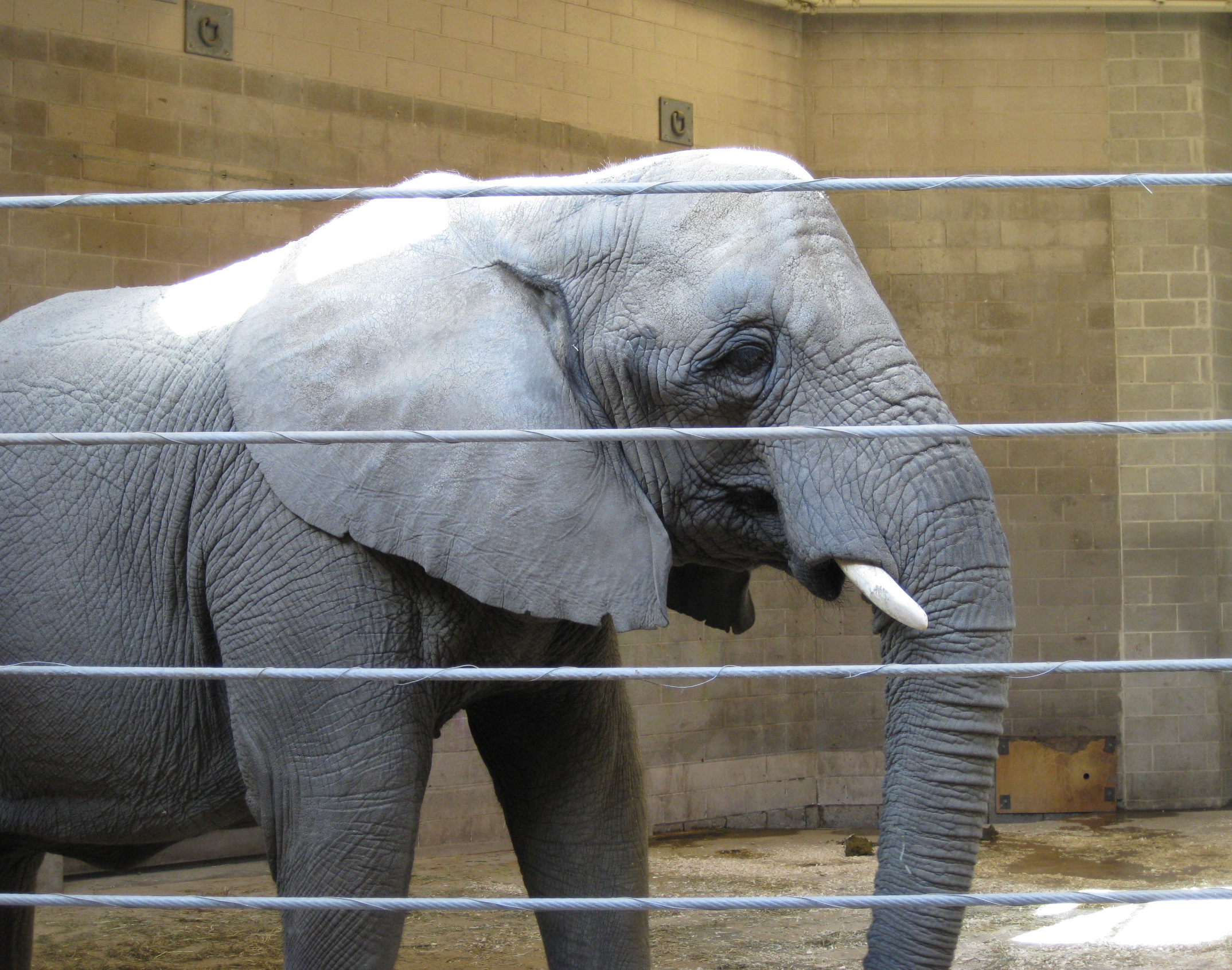 A female African Bush Elephant at the Roger Williams Zoo, Providence, Rhode Island